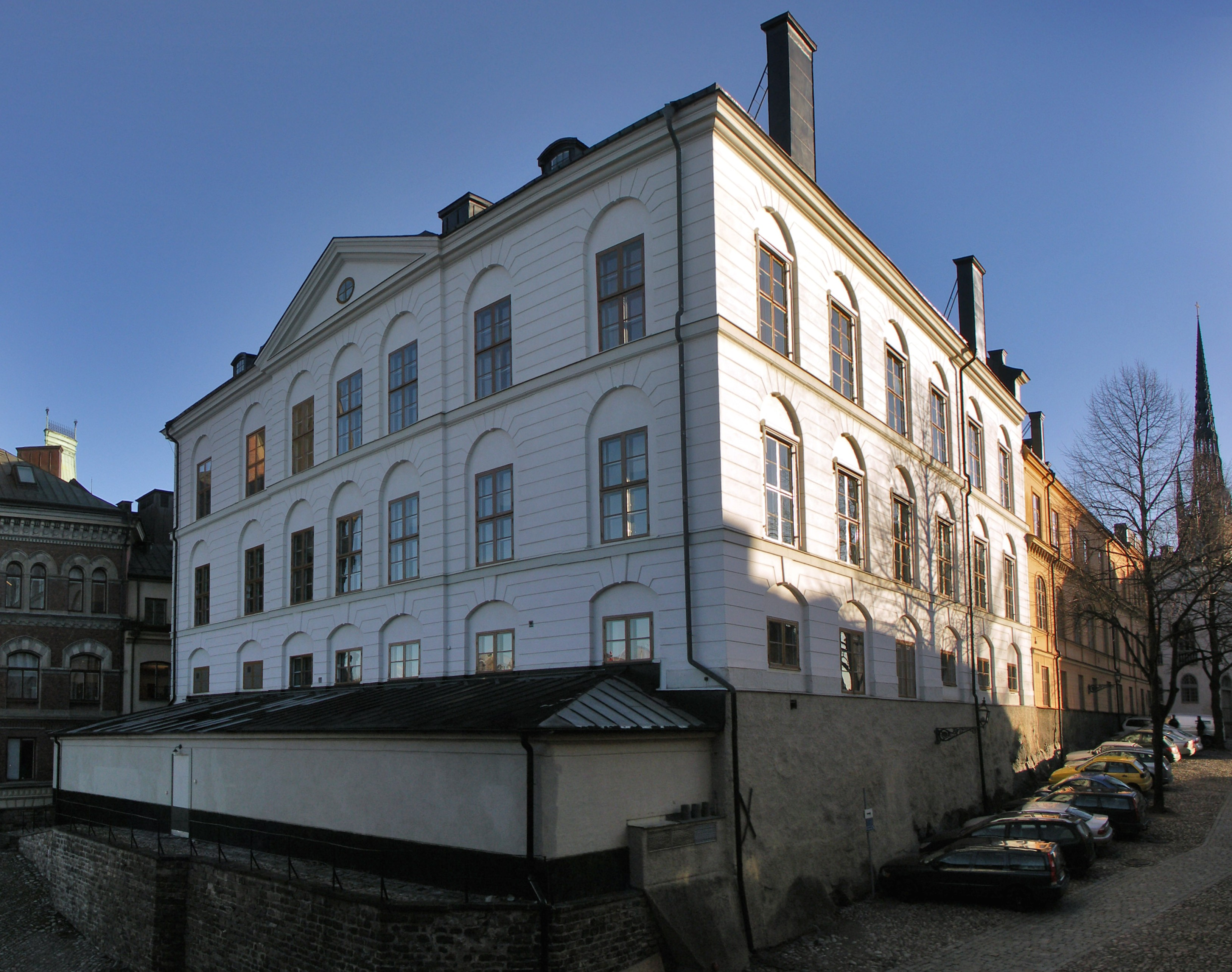 Schering Rosenhane palace on Riddarholmen island, in Stockholm, Sweden. Northern and western fasades.